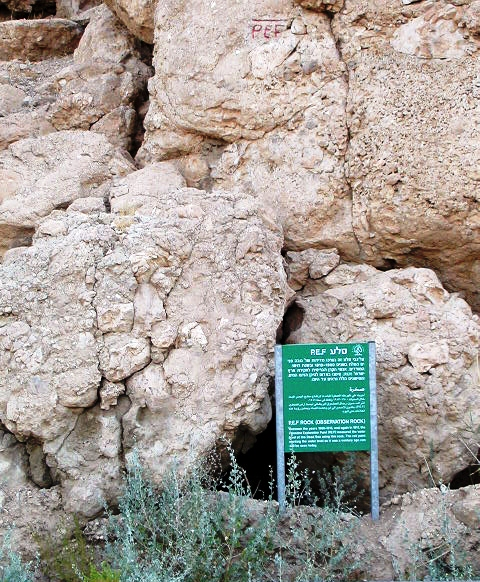 Line painted in 1900 (at top of image) by Robert A.S. Macalister of the Palestine Exploration Fund showing the level of the Dead Sea at that time.